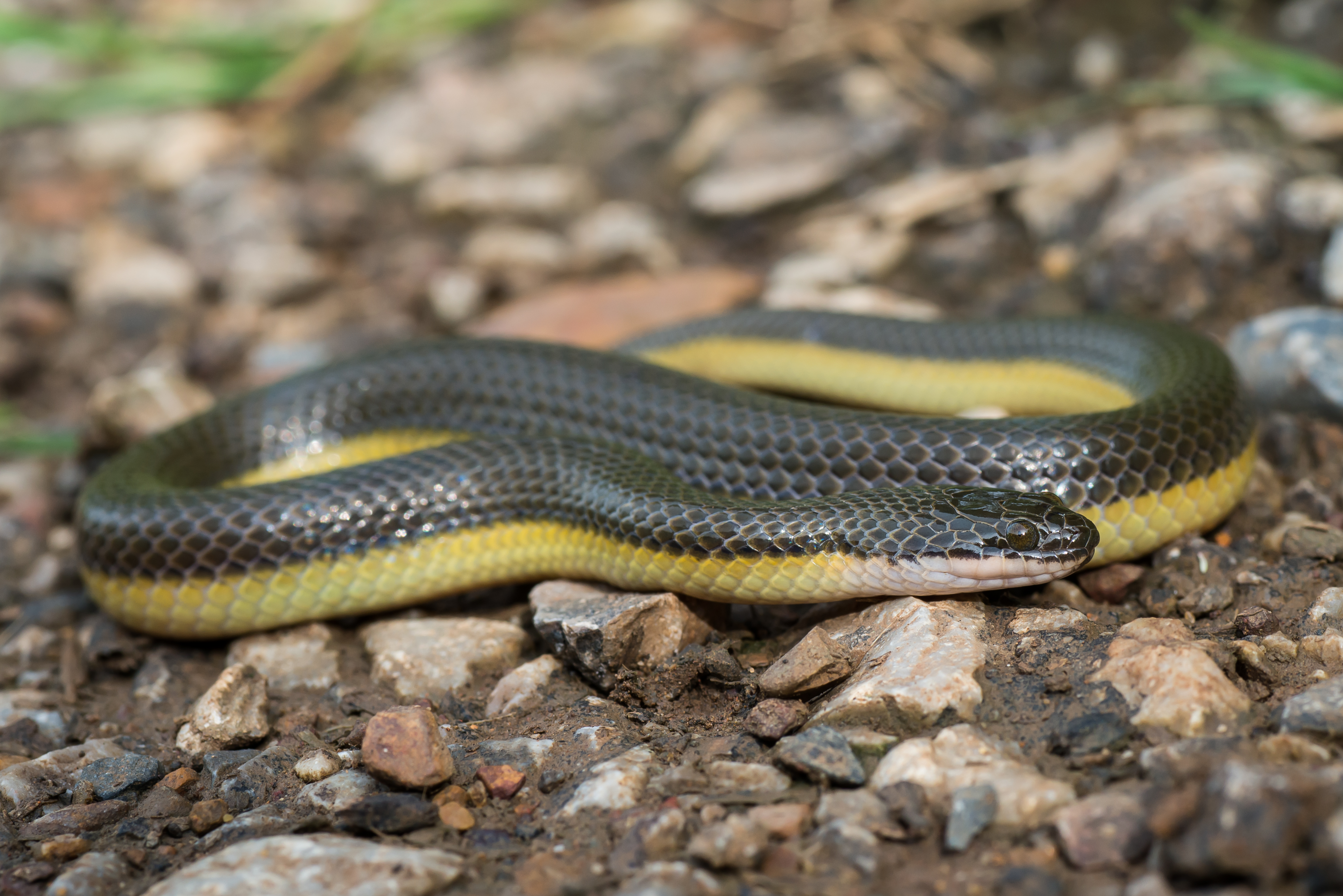 Hypiscopus plumbea, Rice paddy snake - Nong Phai Distric of Phetchabun Province. Photo by Thai National Parks, [1].